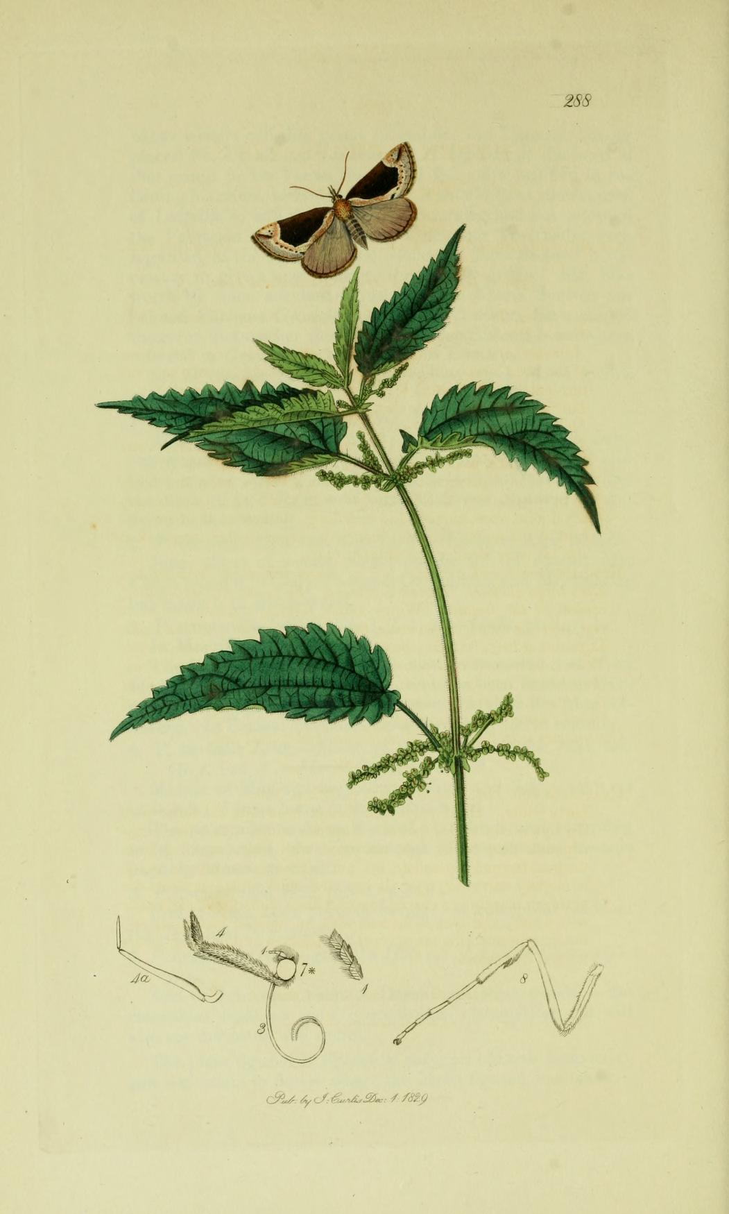 An illustration from British Entomology by John Curtis. Lepidoptera: Hypena crassalis (Beautiful Snout).